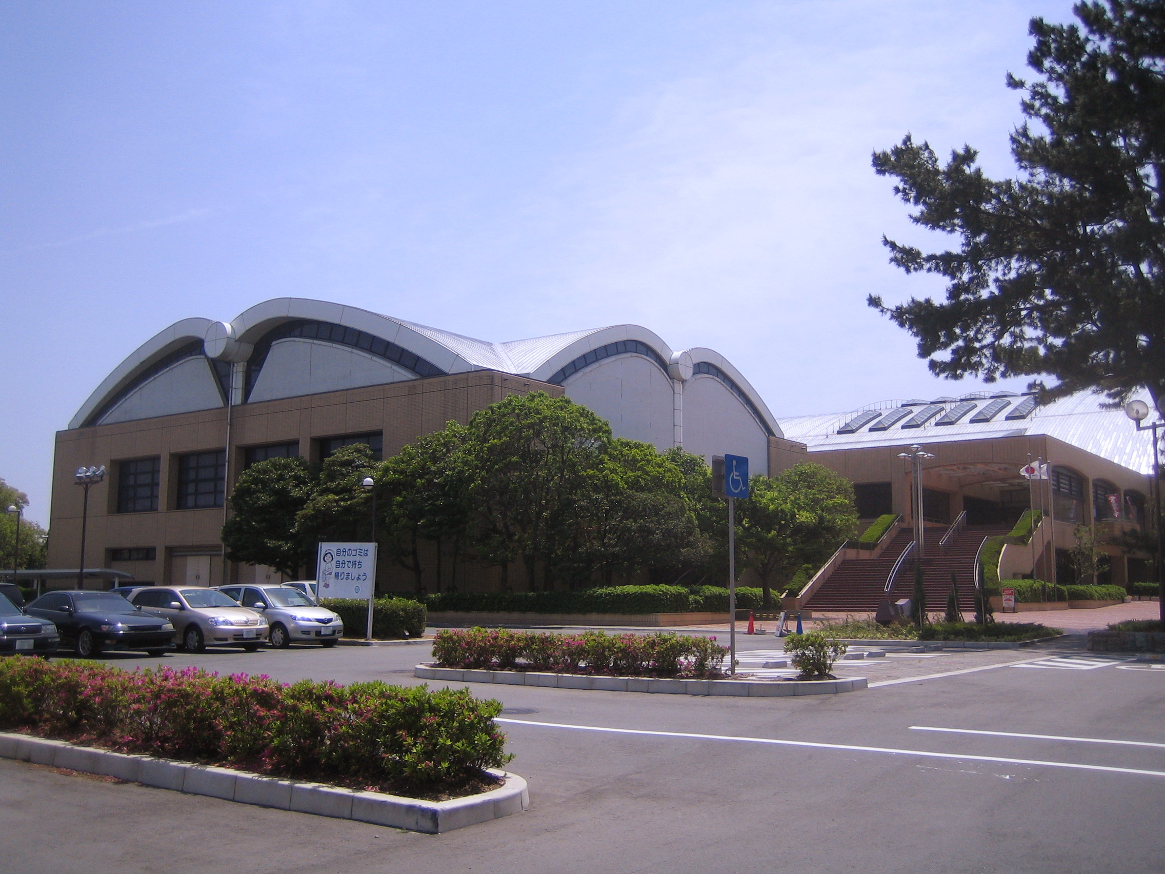 Toyohashi City General Gymnasium (豊橋市総合体育館), located at Jin'no-Nishimachi, Toyohashi, Aichi, Japan